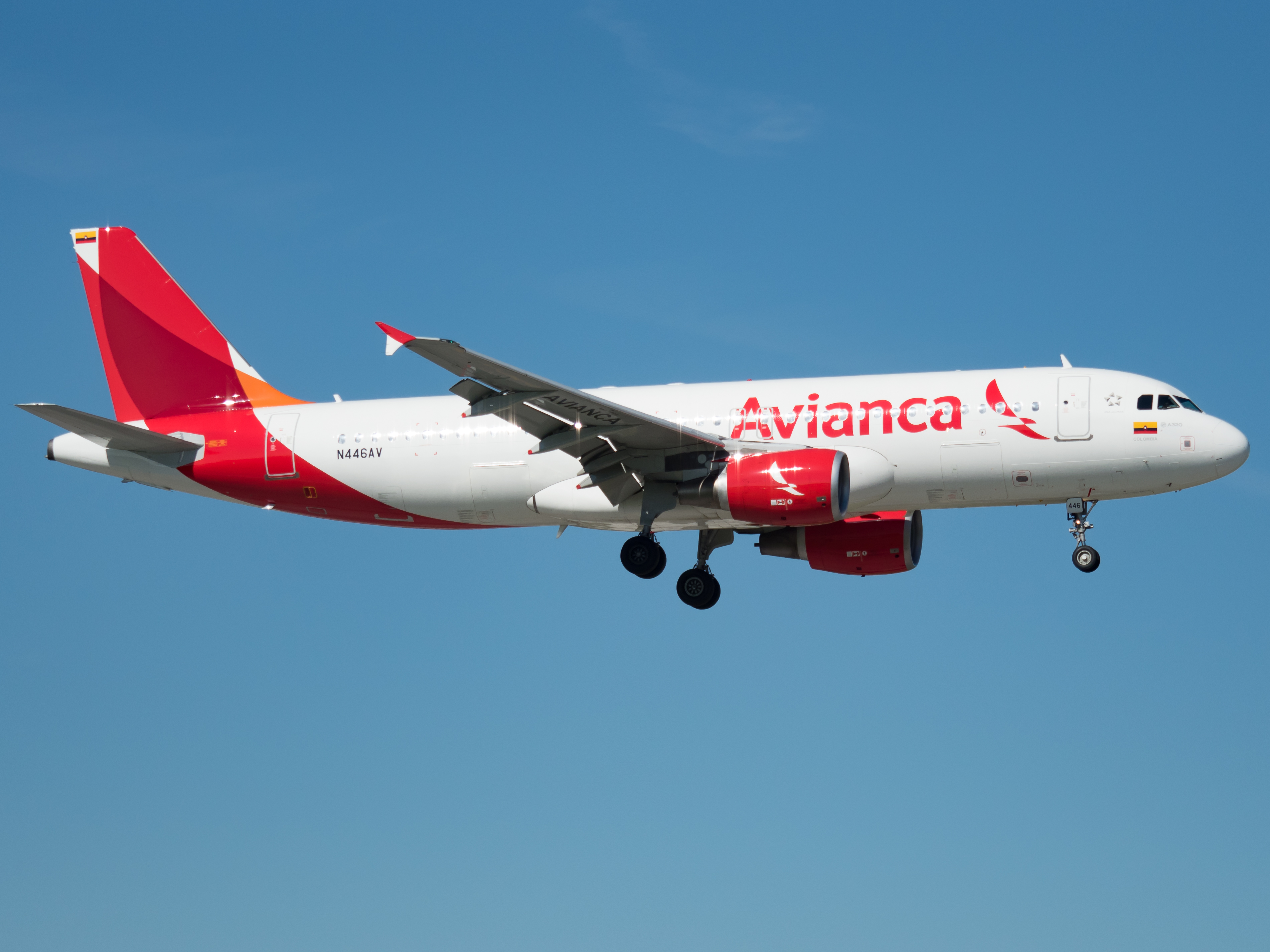 Avianca Airbus A320-214 at Miami International Airport